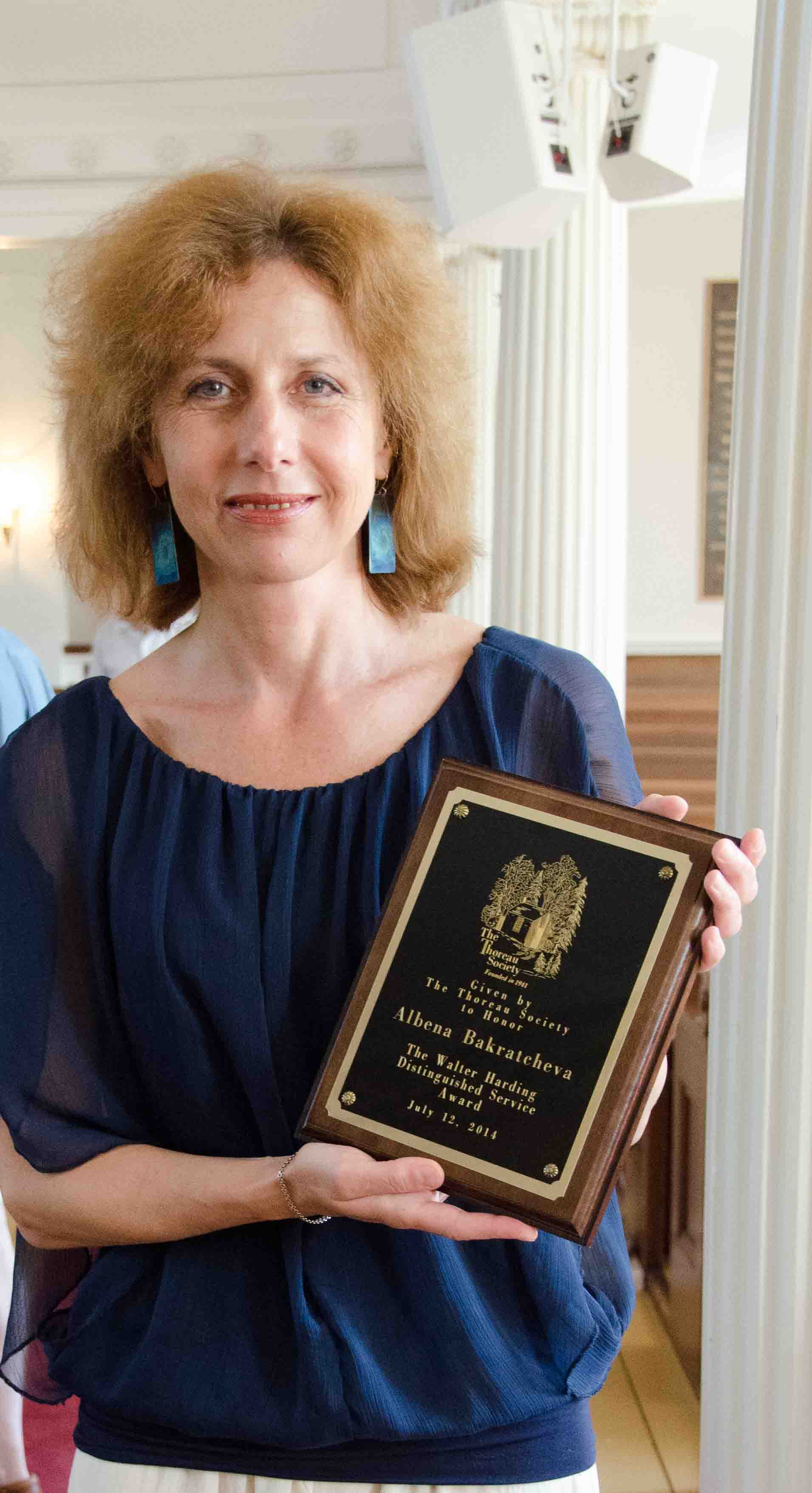 Prof. Albena Bakratcheva aworded by The Thoreau Society, USA